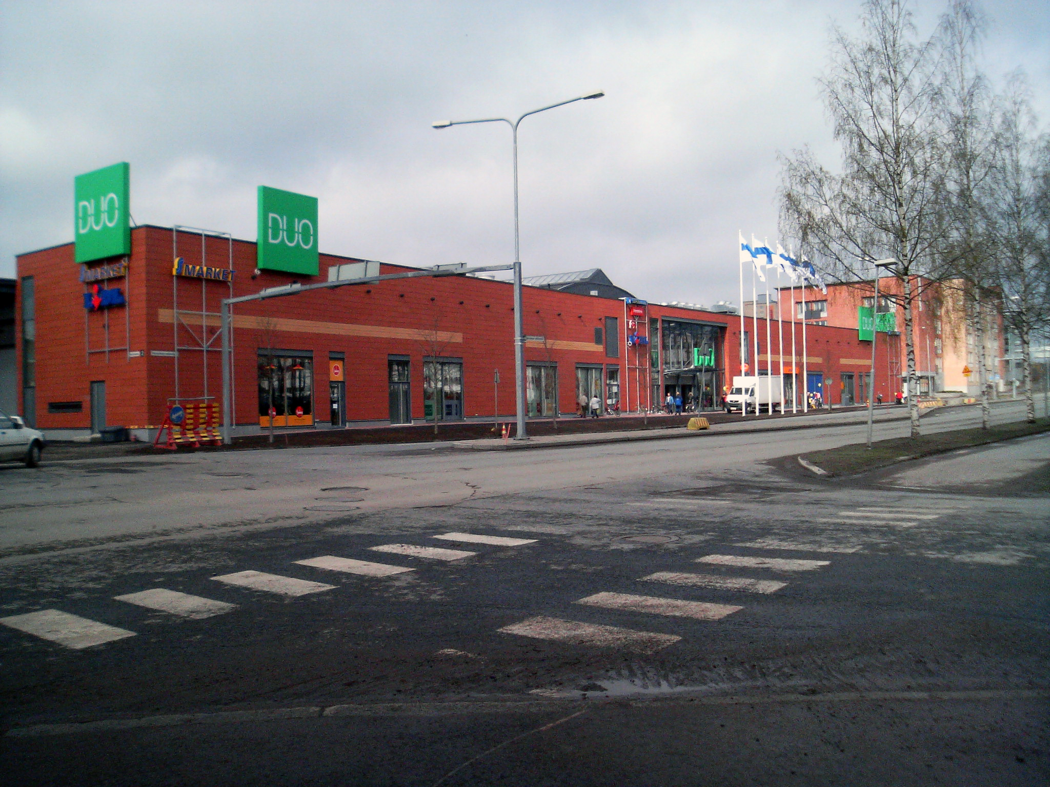 The new part of DUO shopping centre located in Hervanta suburb of Tampere Finland